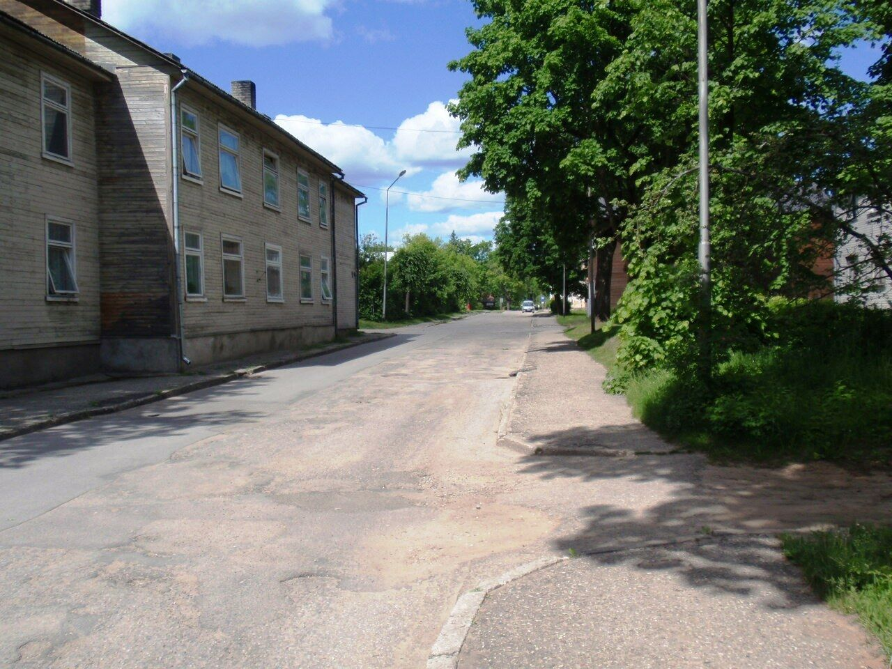 Latgales iela in Valka, Latvia.